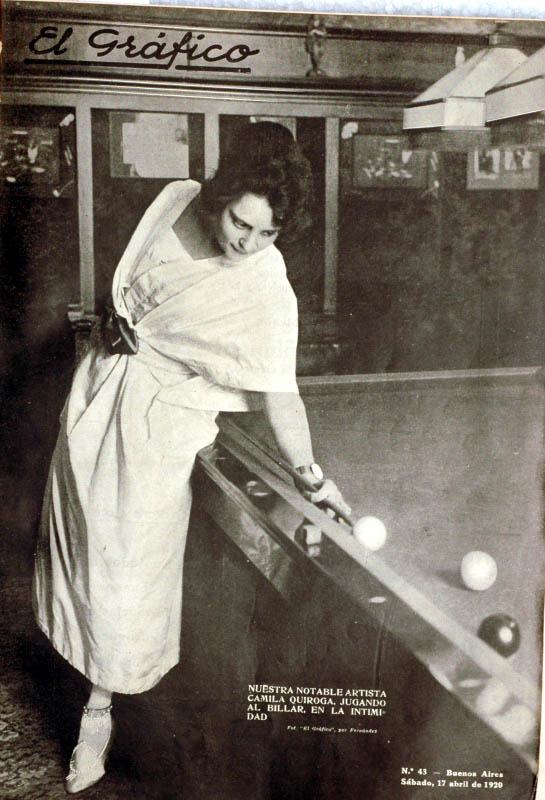 Argentine actress, Camila Quiroga, playing billar for the cover of El Gráfico magazine.